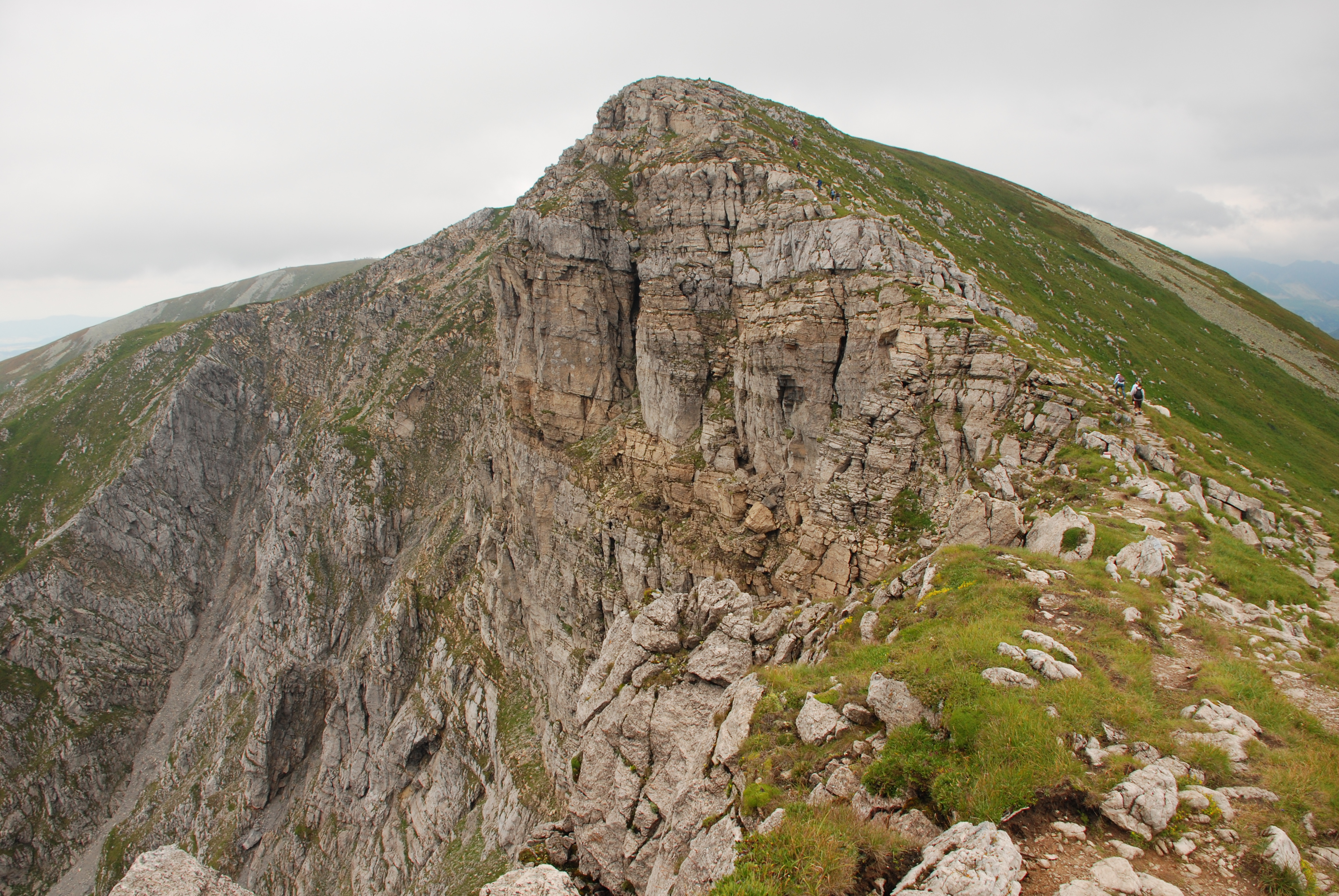 Krzesanica